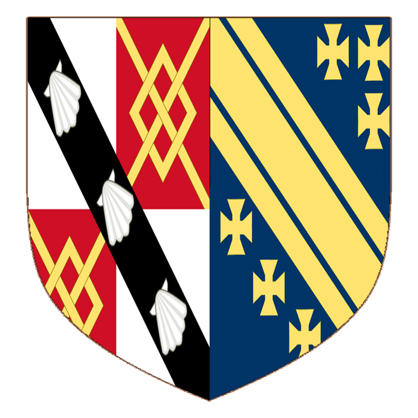 Arms of Lavinia, Countess Spencer, being the arms of The Earl Spencer being impaled with the arms of The Earl of Lucan